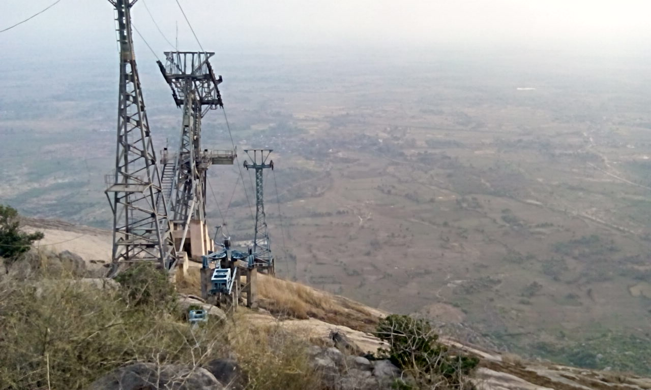 Trikut pahar ropeway deoghar at jharkhand